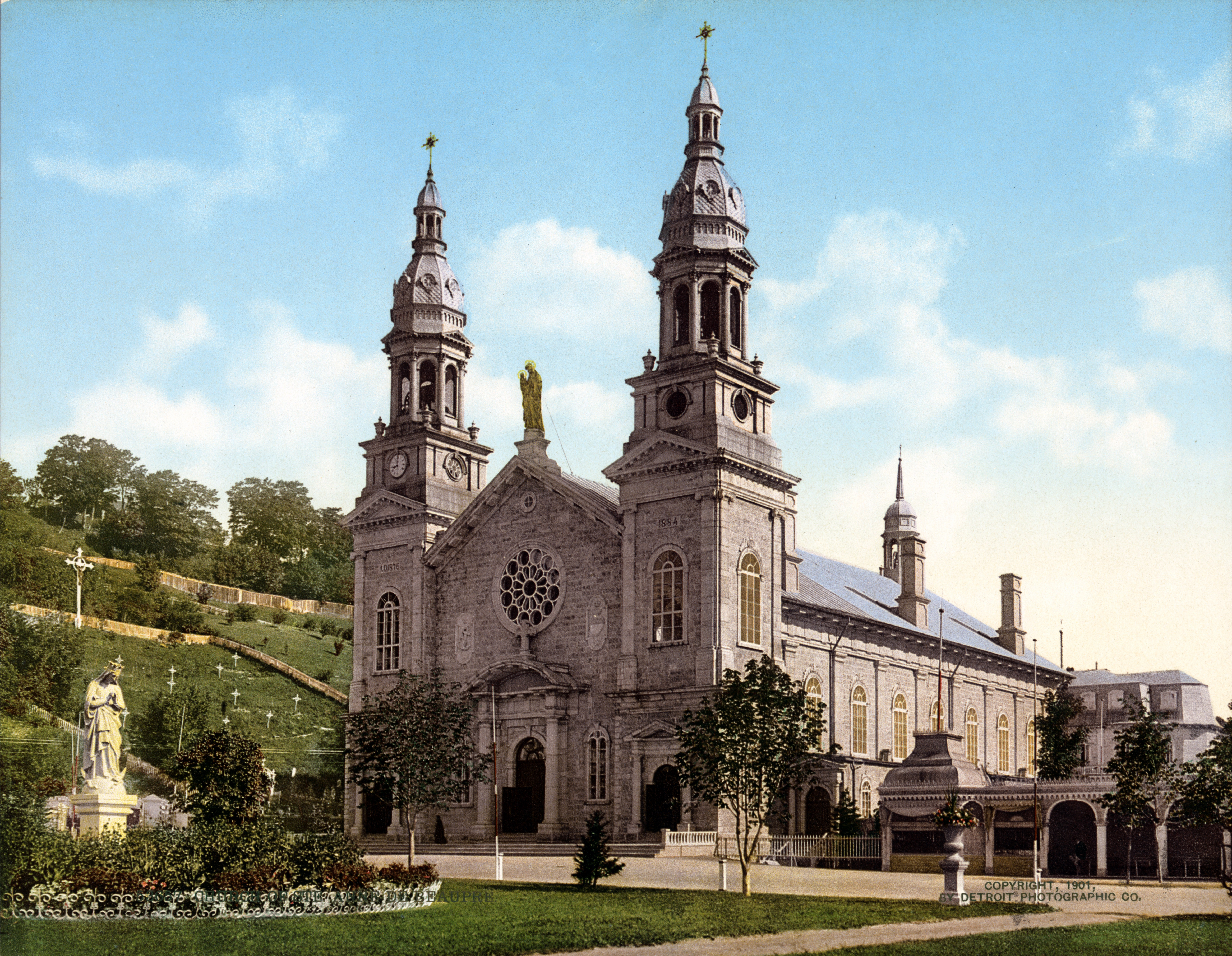 Church of Ste. Anne de Beaupré. The church shown in this image was completed in 1876. Destroyed by fire in 1922, it was rebuilt in 1926.